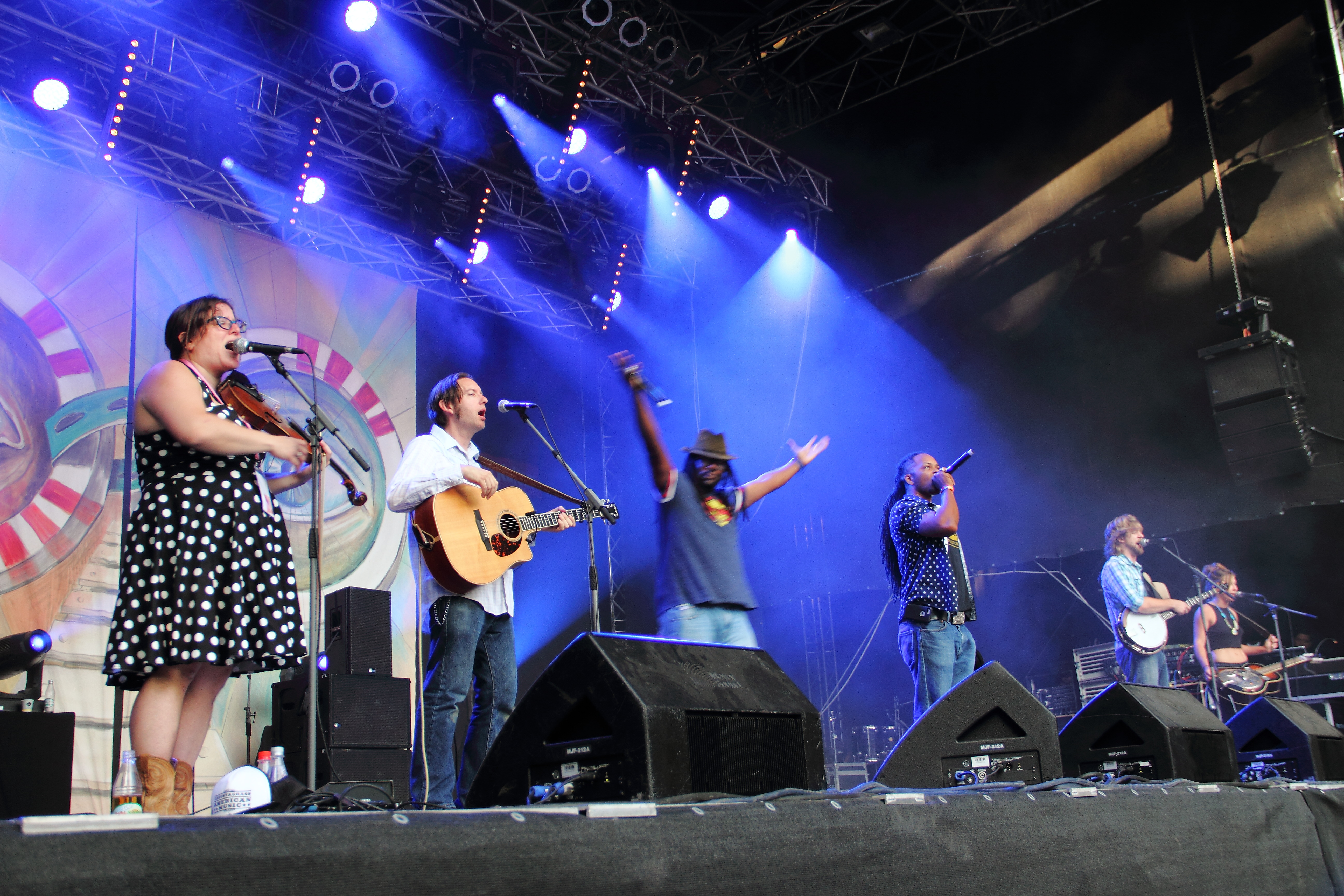 The band Gangstagrass combines bluegrass and hip hop. Here´s the show at Rudolstadt-Festival 2016.